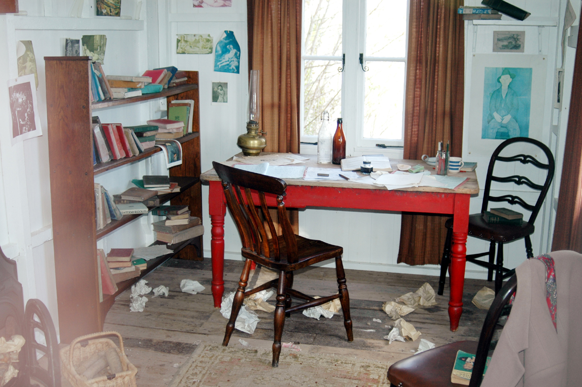 Cliif-top writing shed overlooking Afon Taf, near Boat House, Laugharne, used by Dylan Thomas.